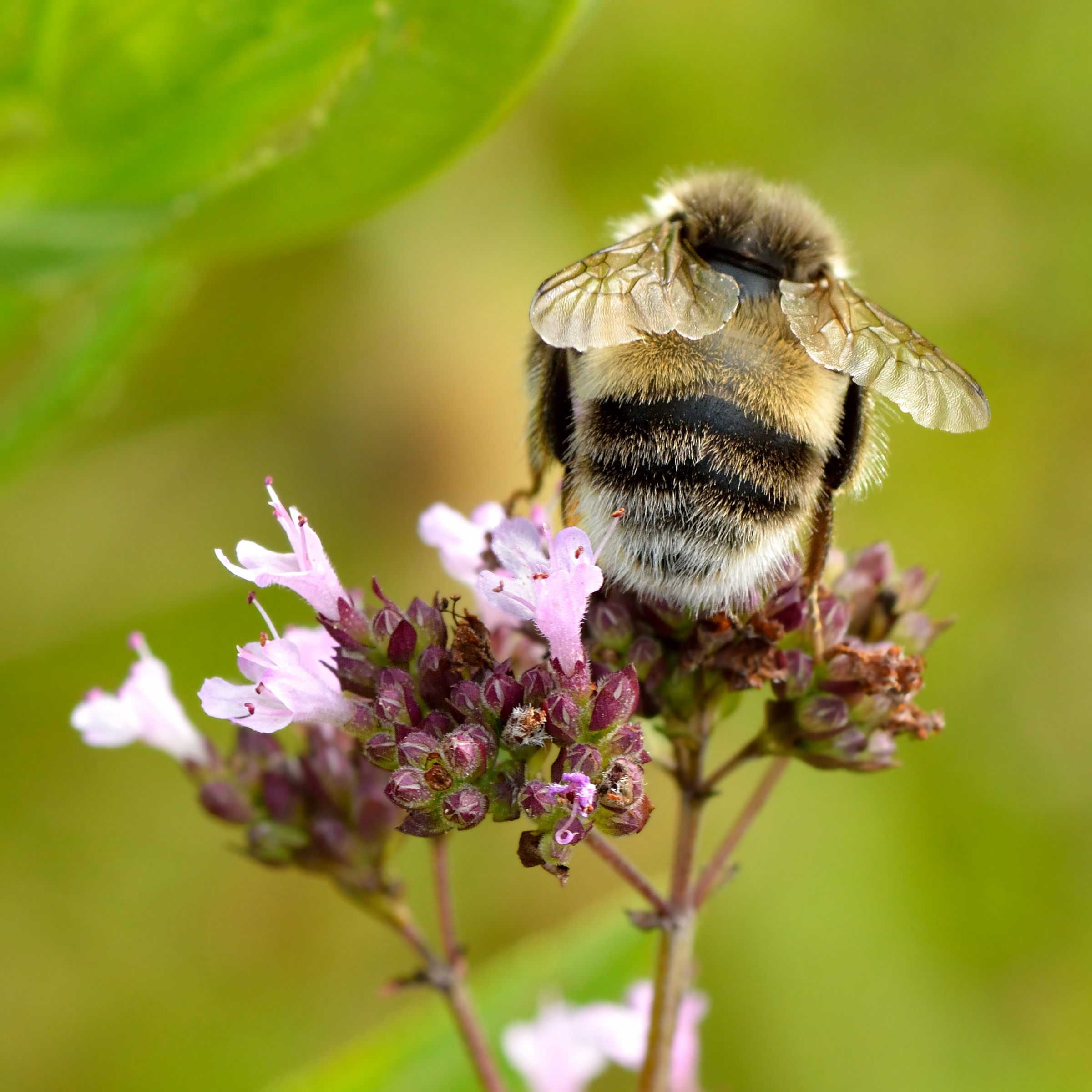 Male white-tailed bumblebee (Bombus lucorum) on the oregano (Origanum vulgare). Keila, Northwestern Estonia.